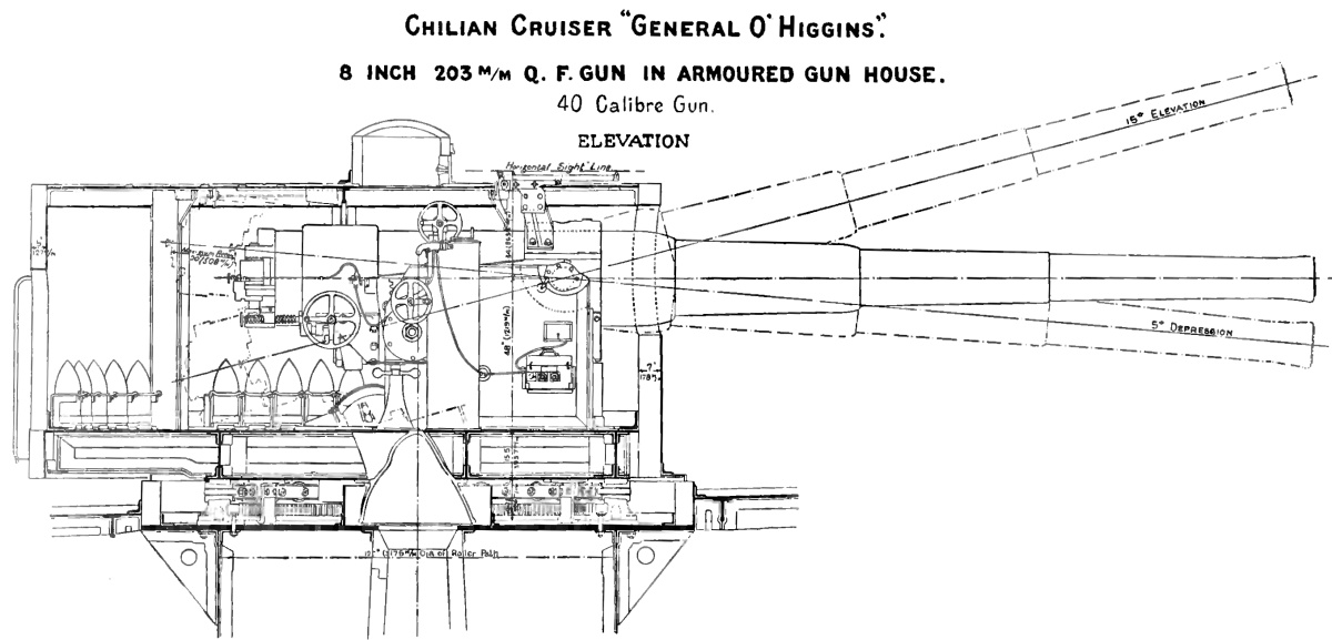 Right elevation diagram of Elswick Ordnance 8-inch 40 calibre gun in armoured gunhouse for Chilean cruiser General O'Higgins. The gunhouse armour is 8 inches in front and 5 inches at the sides and rear. The trunk for supply of cartridges is also protected with 5 inches of armour. Cartridges come up the central trunk, powered by a hydraulic motor. A ready supply of shells is held in the gunhouse, more can be brought up via the trunk.